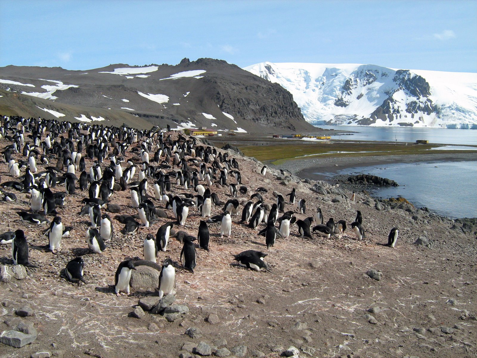 Penguin Ridge and the Arctowski Station, King George Island